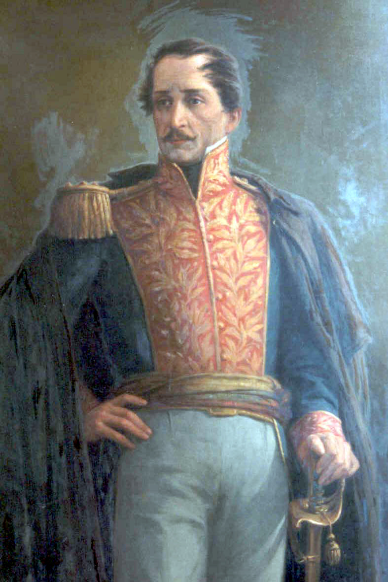 Oil painting of Francisco de Paula Santander. Original is located at the House of Nariño, Bogotá, Colombia.